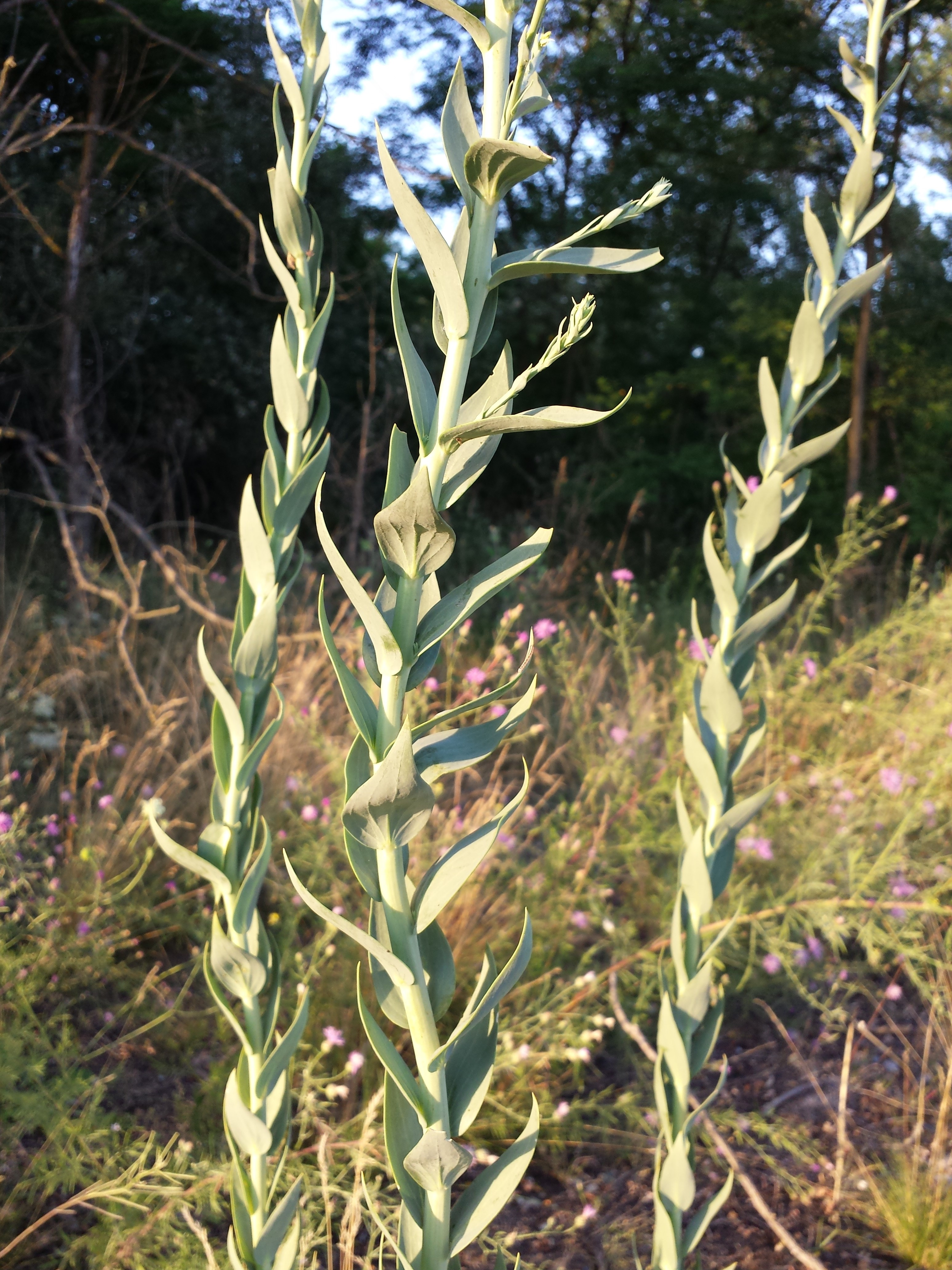 Stipes with leaves Taxon: Linaria genistifolia (sensu Fischer et al. EfÖLS 2008 ISBN 978-3-85474-187-9) Location: old marshalling yard Breitenlee, Vienna-Donaustadt - ca. 160 m a.s.l. Habitat: ballast